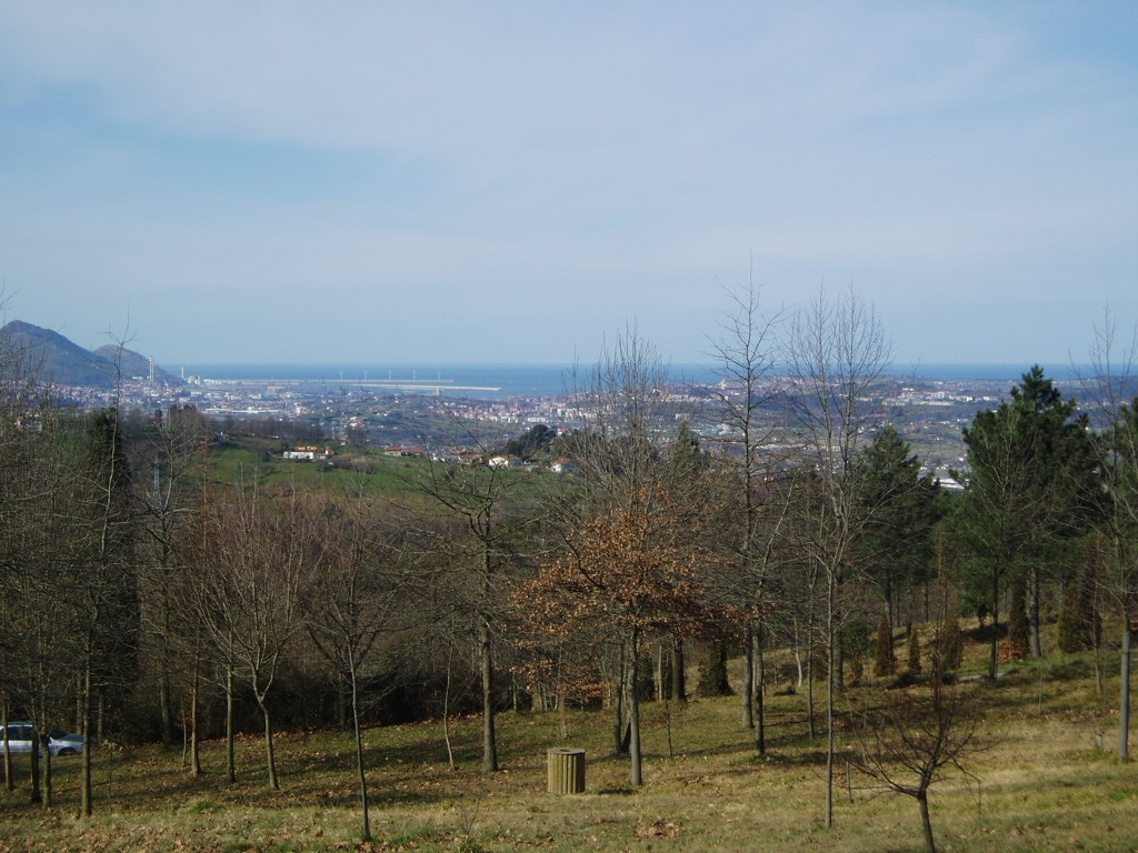 View of the sea from Iturritxualde/Avril mountain (Bilbao).